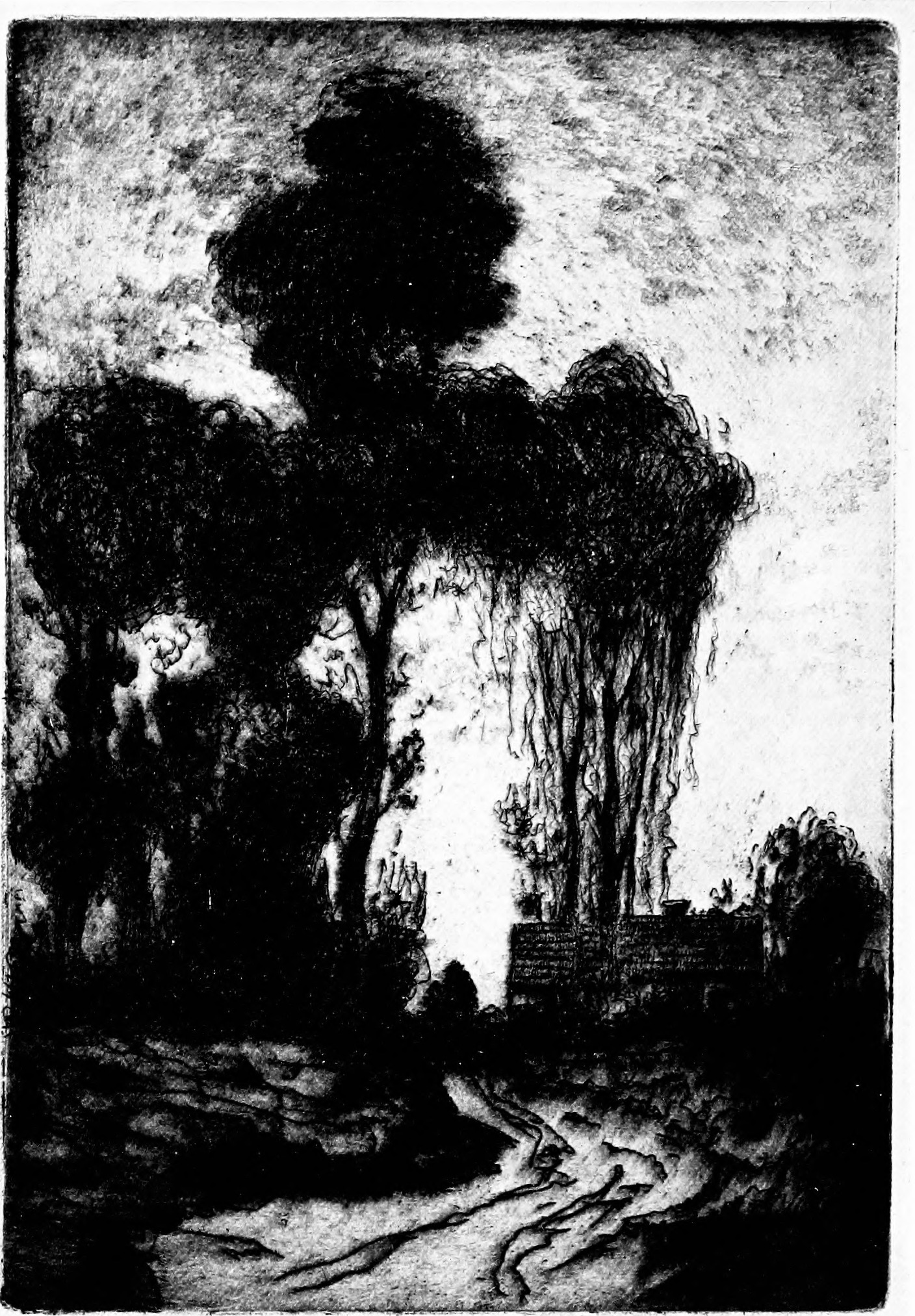 Title: Modern etchings, mezzotints and dry-points Year: 1913 (1910s) Authors: Holme, Charles, 1848-1923 Salaman, Malcolm C. (Malcolm Charles), 1855-1940 Taylor, E. A Zilcken, Ph., 1857-1930 Levetus, A. S Deubner, Ludwig, 1877-1946 Laurin, Thorsten Subjects: Etching Mezzotint engraving Dry-point Publisher: London, New York (etc.) "The Studio" ltd. Text Appearing Before Image: ii6 AMERICA Text Appearing After Image: rjimsny-Sj.. ^ *;;a;^^ A COUNTRY ROAD. ORIGINAL ETCHINGBY CHAS. W. DAHLQREEN 117